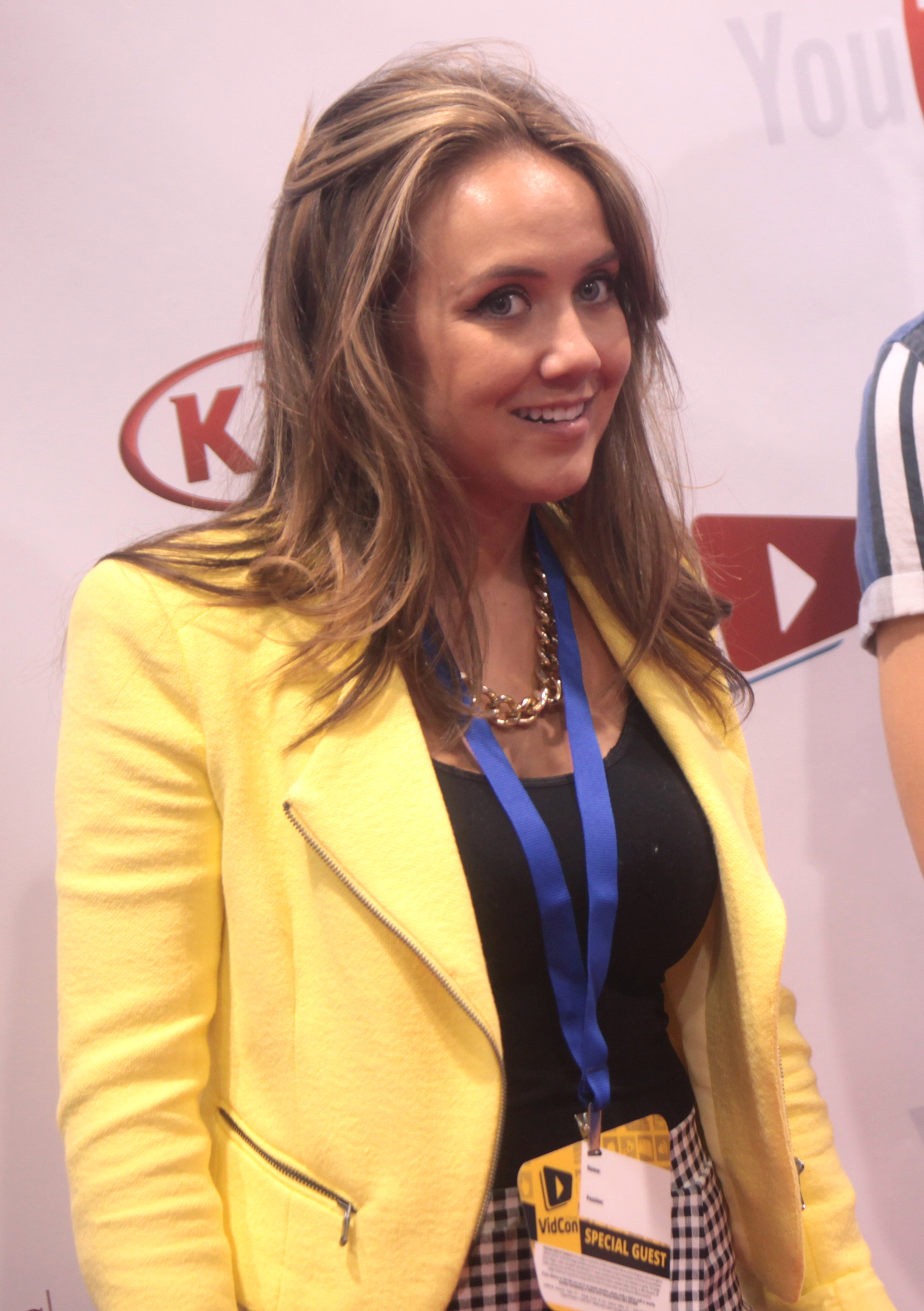 Jennifer Veal speaking at the 2014 VidCon on June 28, 2014.